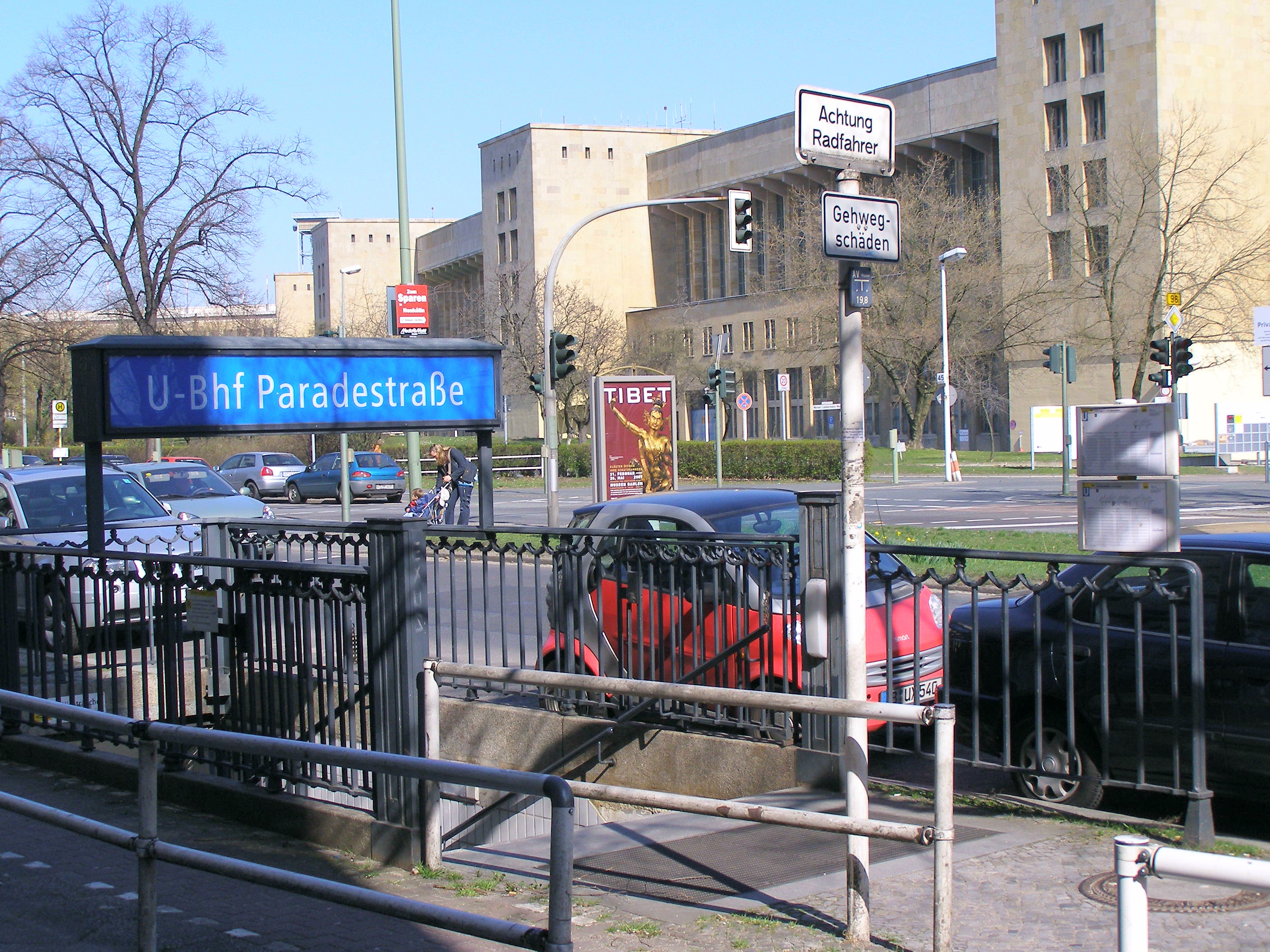 underground station Paradestraße, Berlin (the building in the background belongs still to the building areal of the airport Tempelhof)